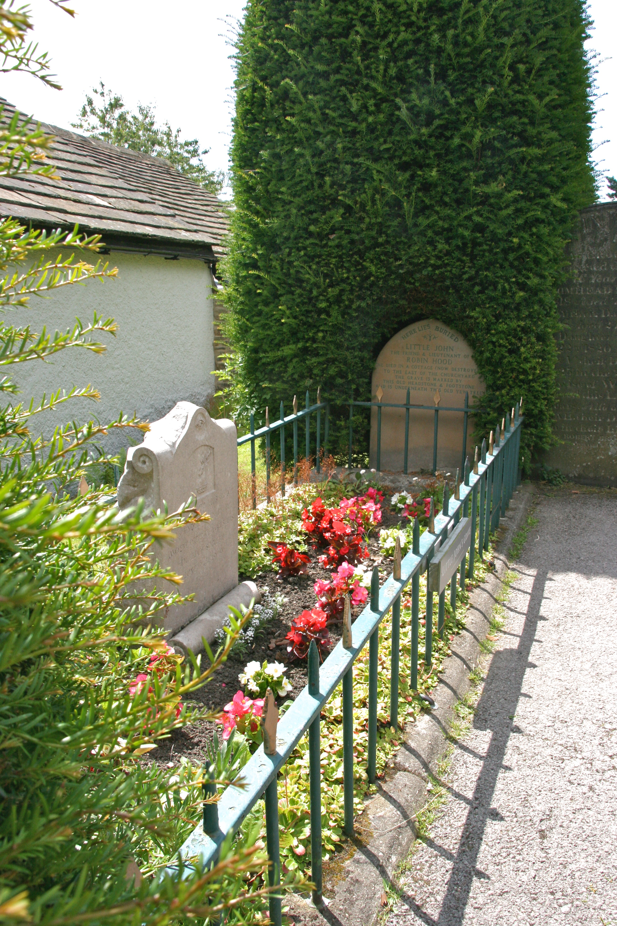 Little John's Grave, Hathersage